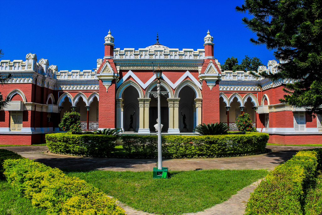 Prime Ministerial residence, northern Bangladesh